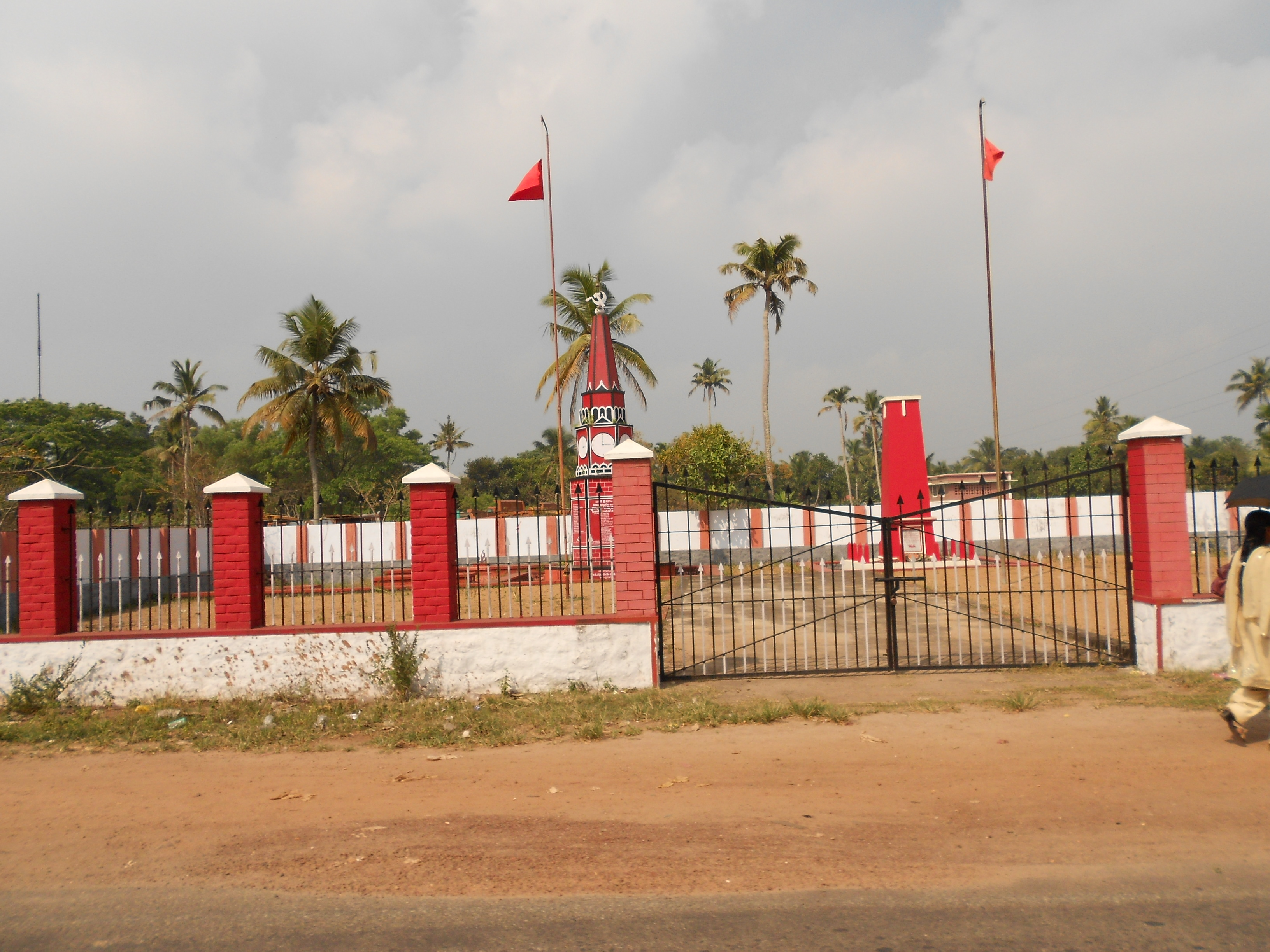 This media file is uploaded with Malayalam loves Wikimedia event - 2. PUNNAPRA-VAYALAR RAKTHASAKSHI MANDAPAM